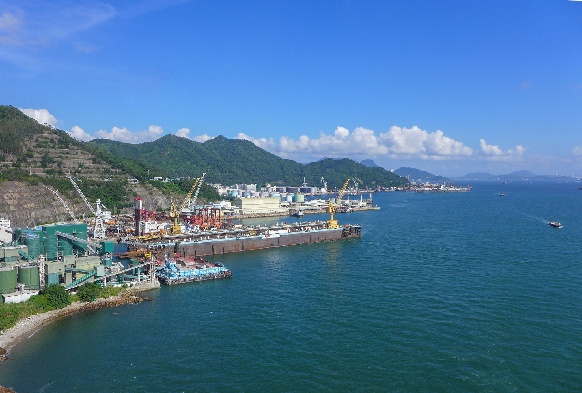 Shell and Caltex Oil Depot